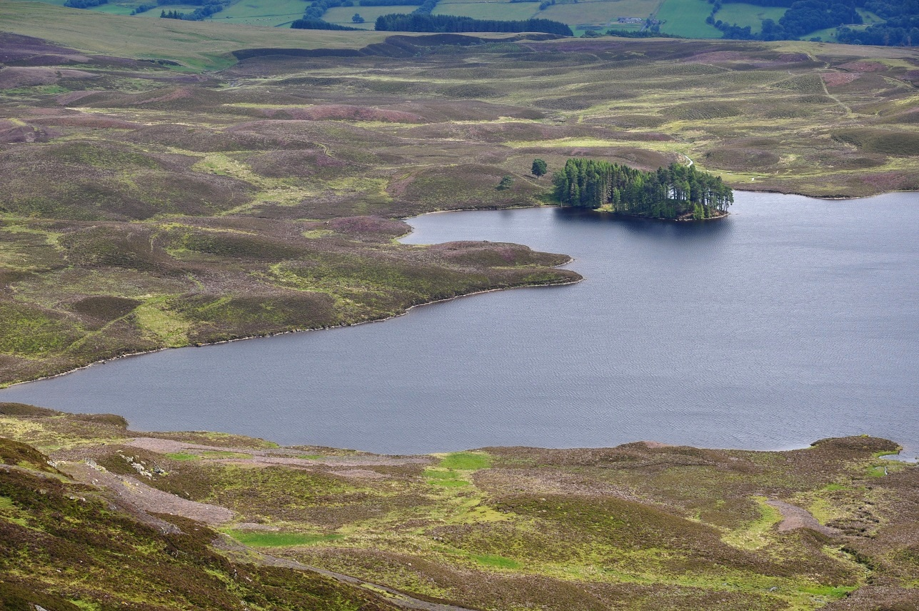 Loch Derculich in the Scottish Highlands, 3 miles north of Aberfeldy, Perthshire.